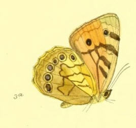 in original as Rhaphicera moorei female